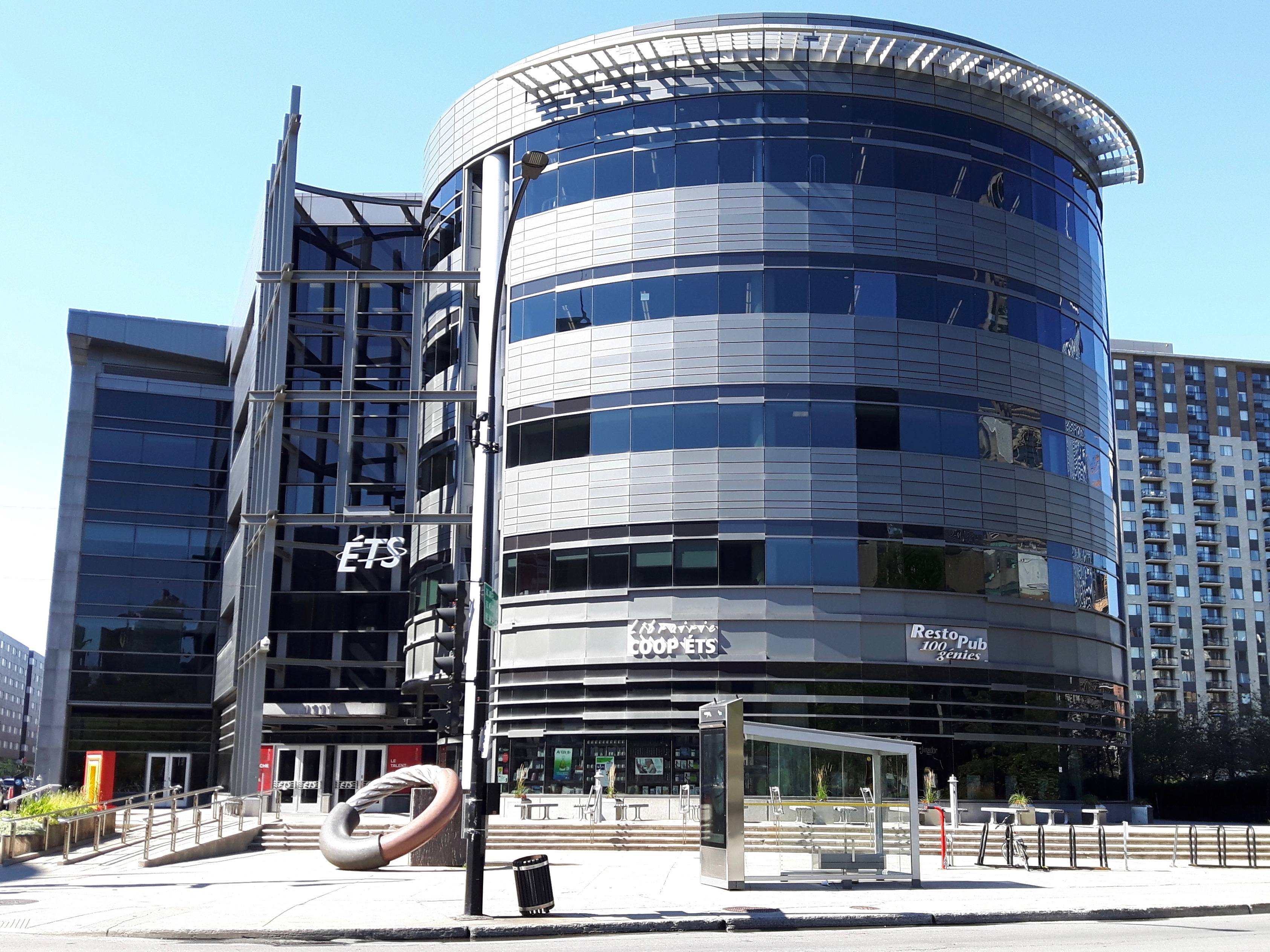 ETS Pavillon B, Montreal.